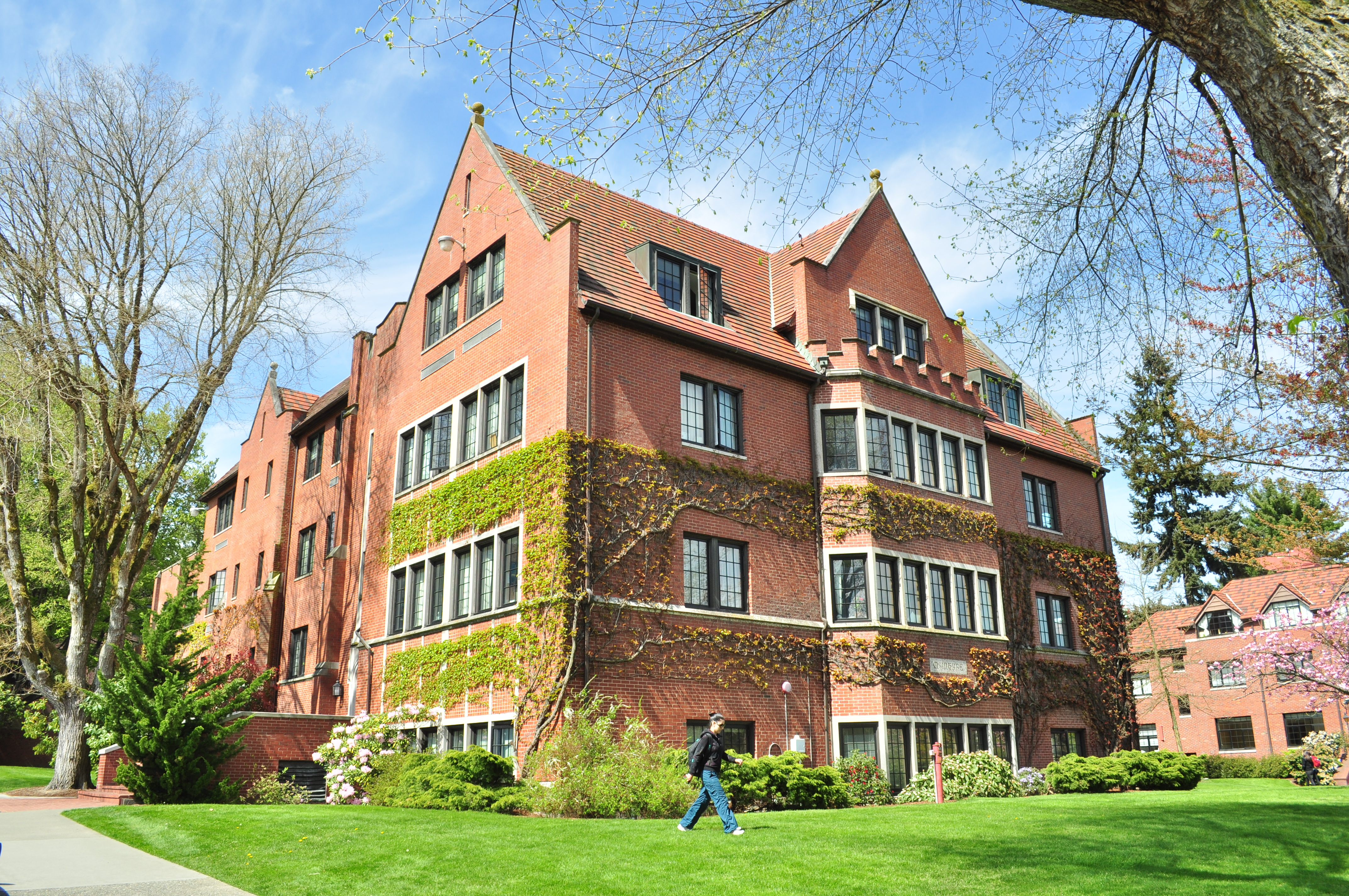 McIntyre Hall, University of Puget Sound, Tacoma, Washington.